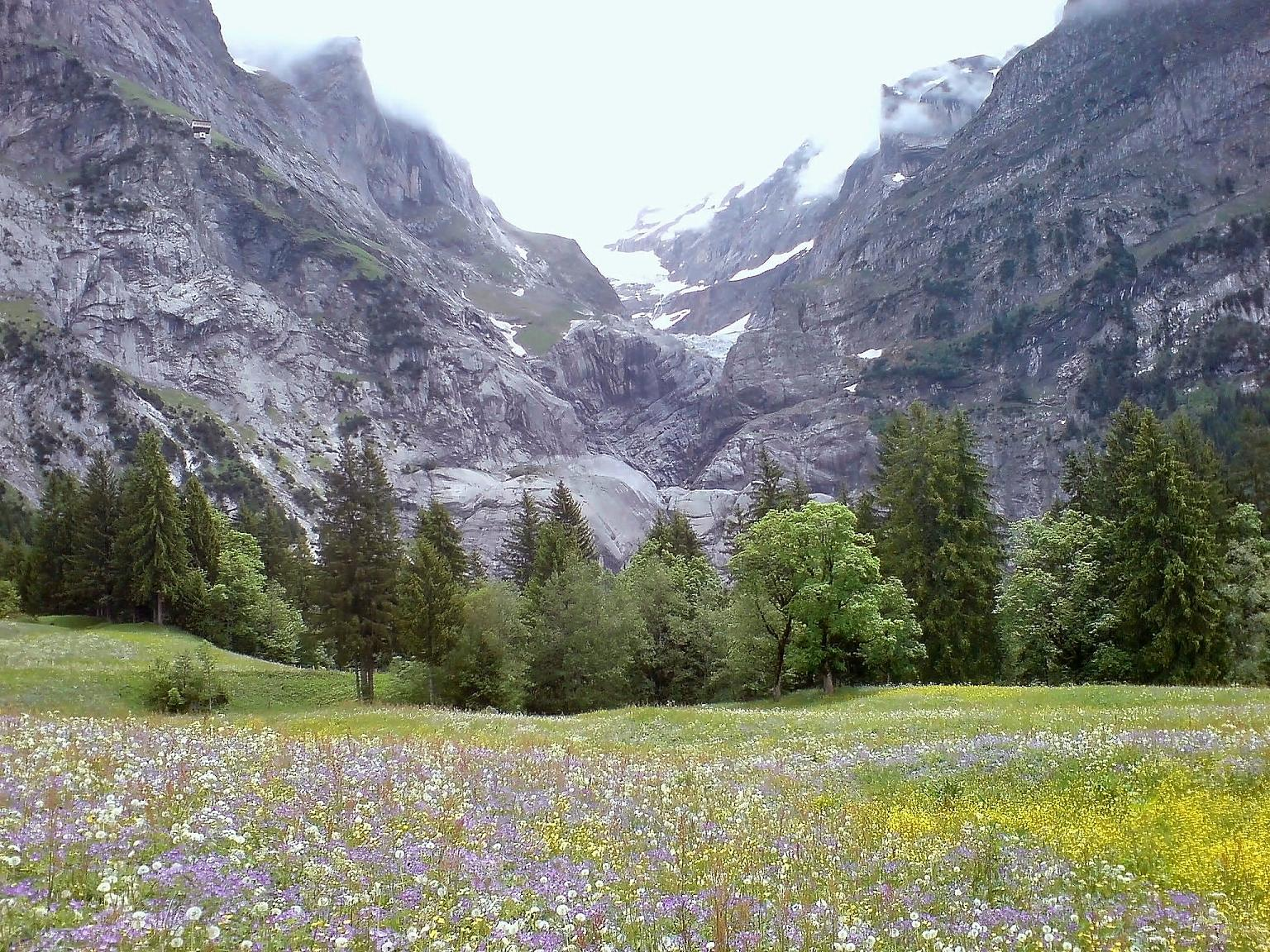 Meadow near Grindelwald in the Bernese Alps, Switzerland.